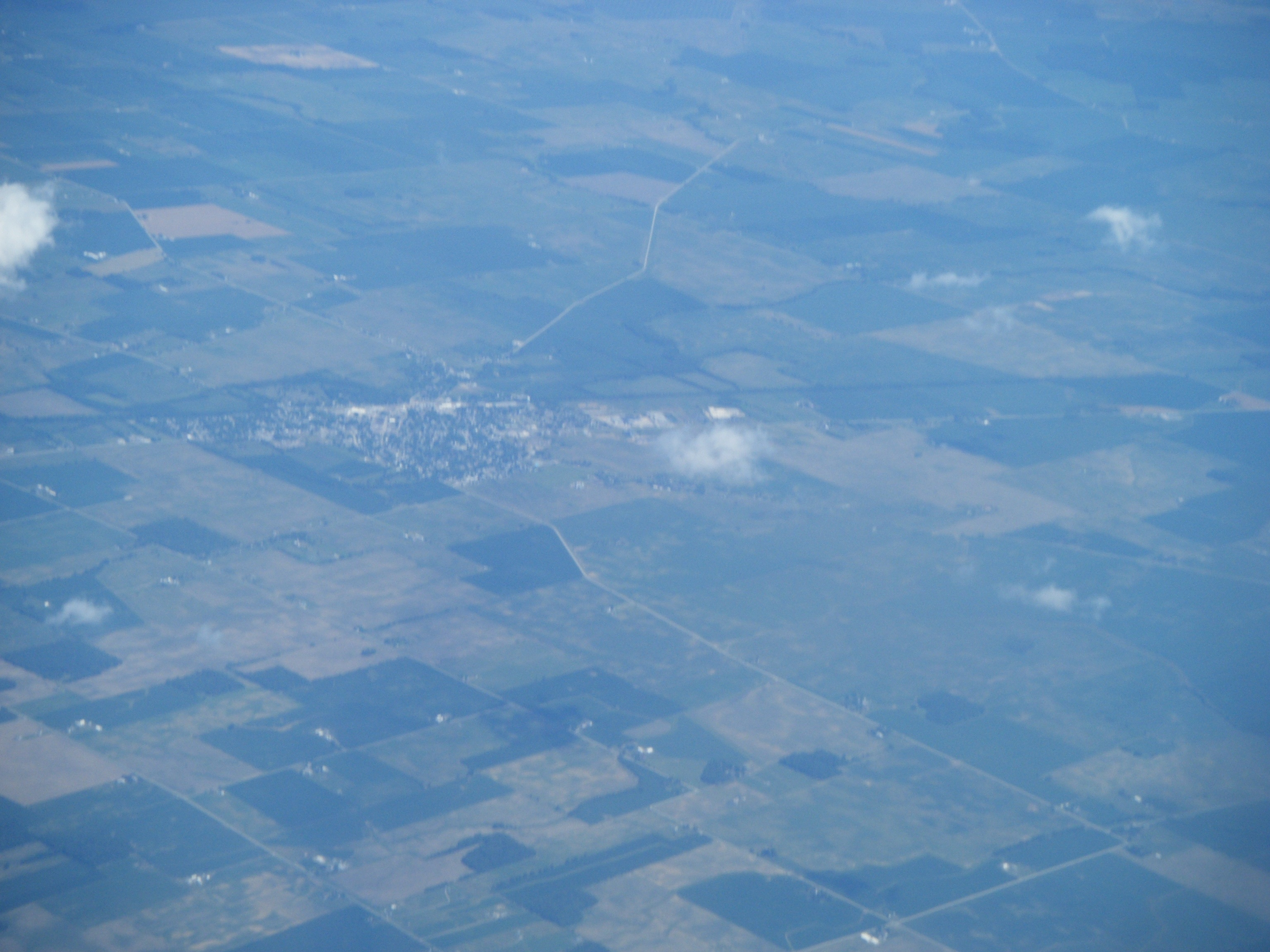 A view of Sabina, Ohio taken from an airplane